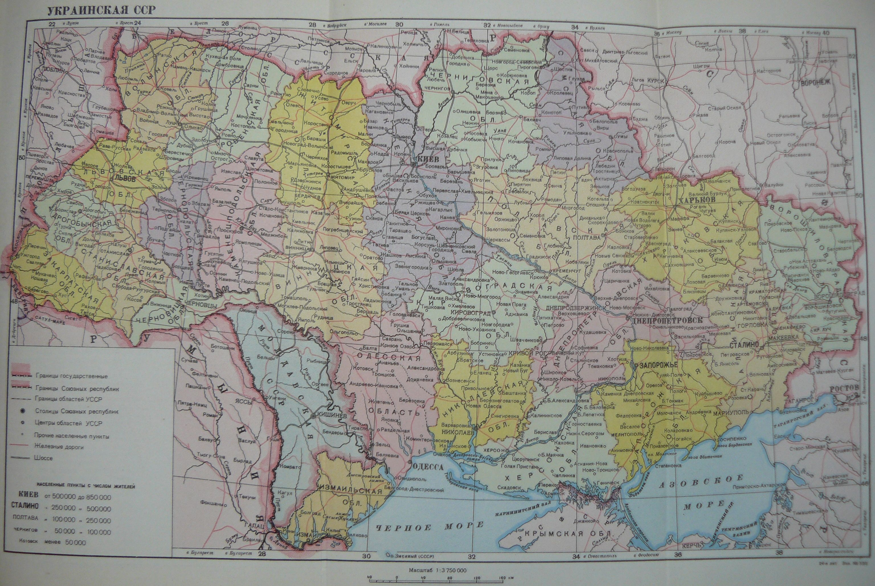 Ukrainian Soviet Socialist Republic map as of 1947.